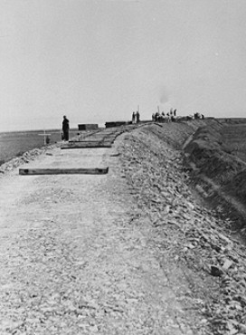 Prisoners from the Buchenwald concentration camp at forced labor building the Weimar-Buchenwald railroad line.